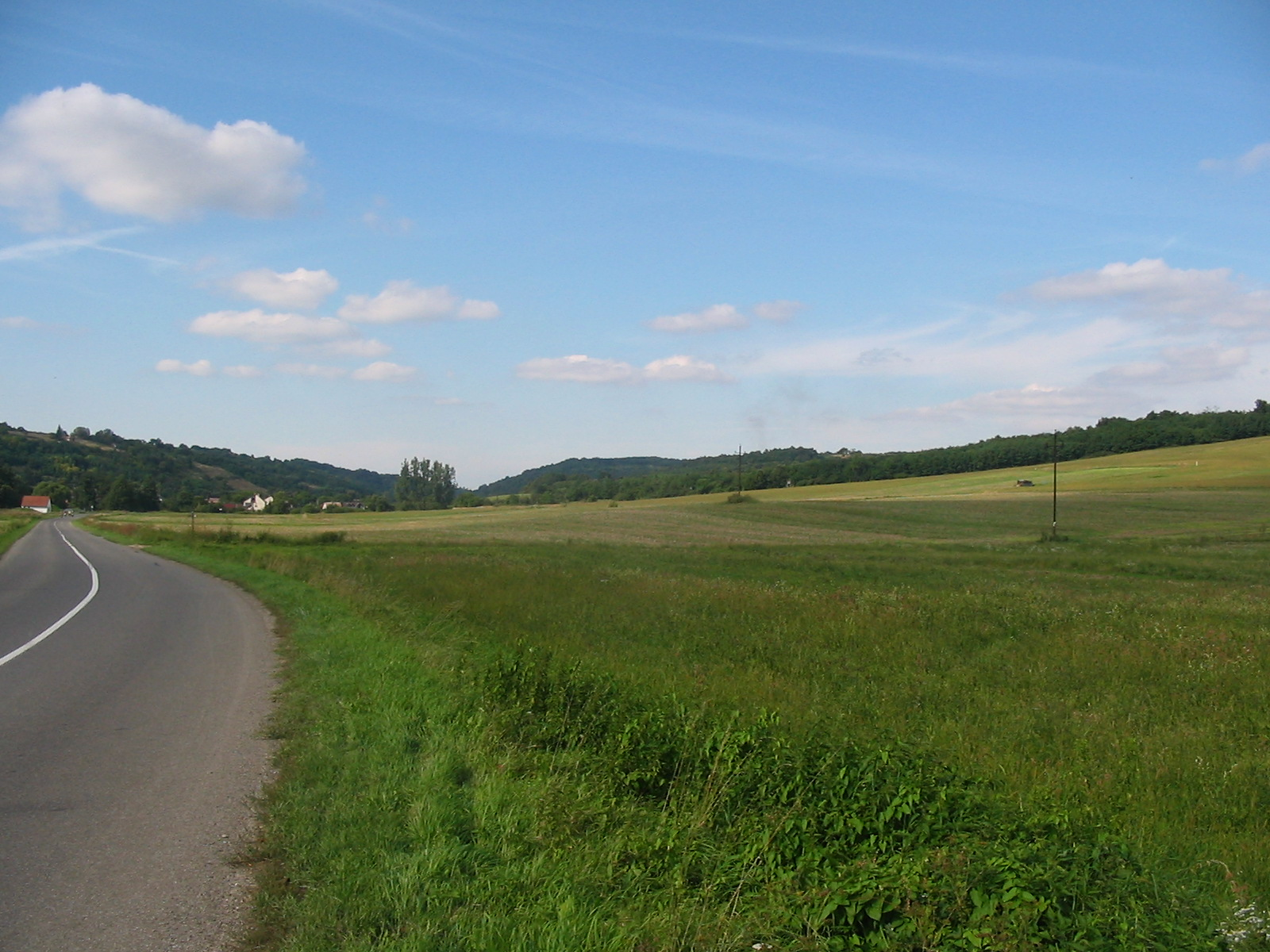 Typical Hungarian countryside. author: User:Cserlajos.